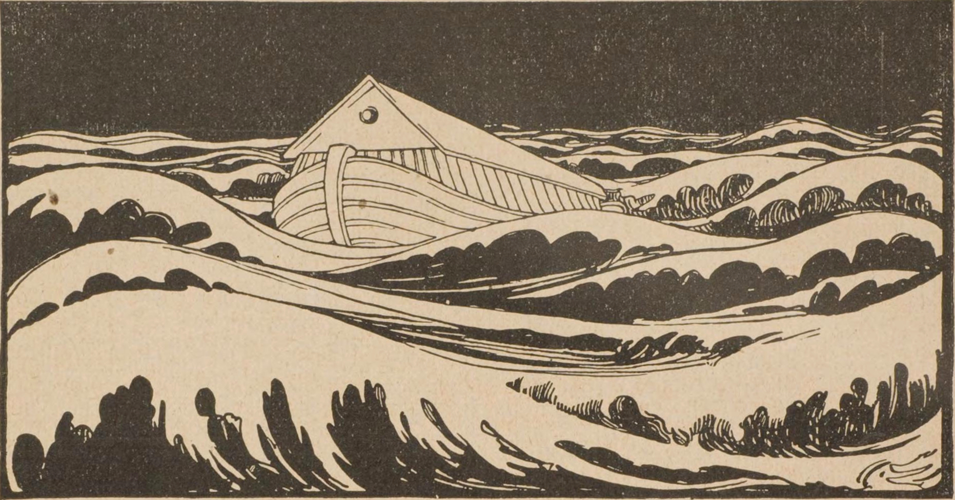 Noah's ark.